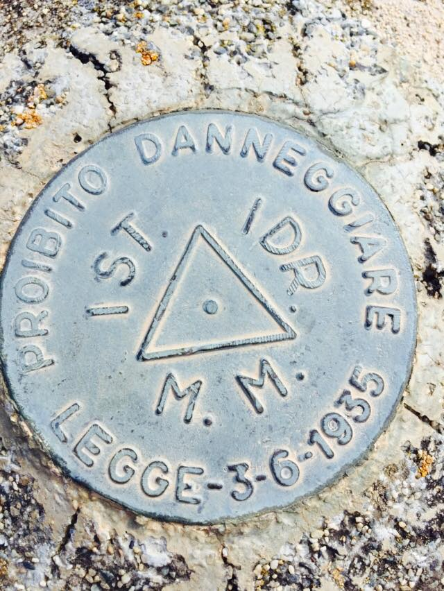 Torre S.Antonio: seal of authenticity